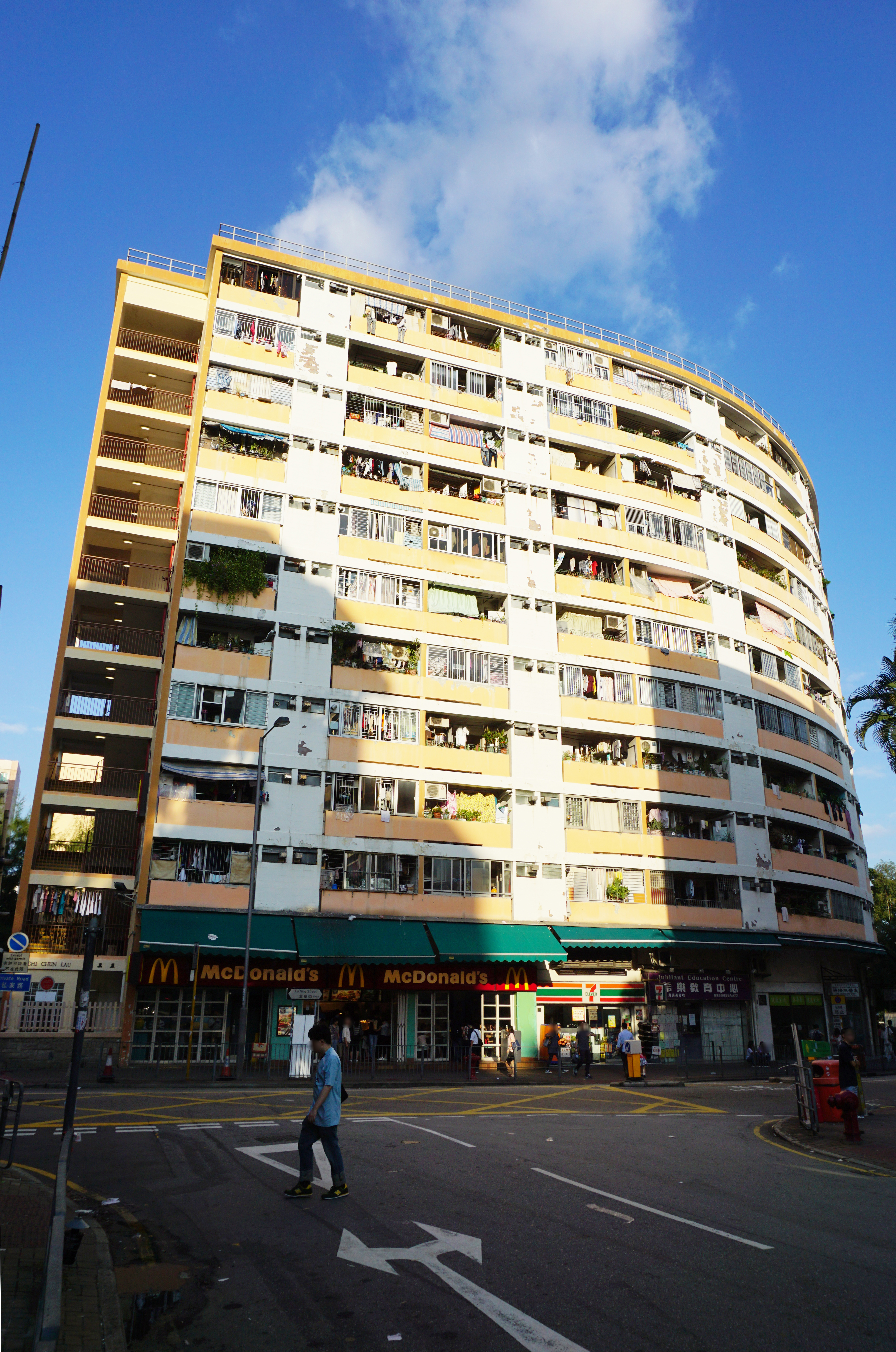 Chi Chun Lau in To Kwa Wan, Hong Kong.